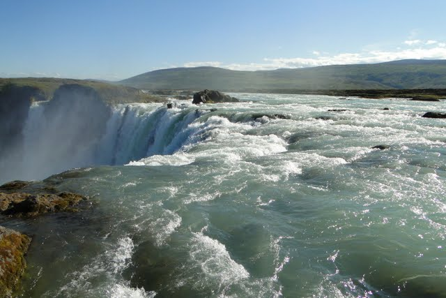 Goðafoss